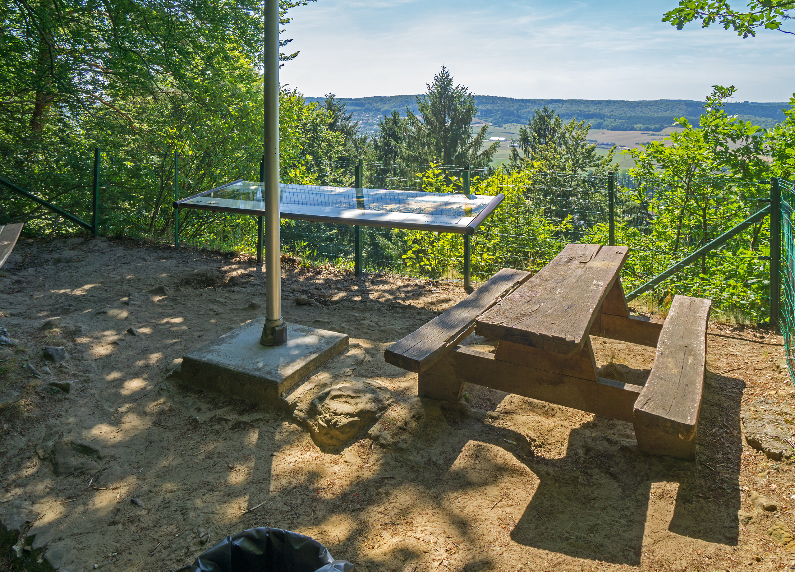 Viewing platform on Fautelfiels with seats, information panel and flagpole